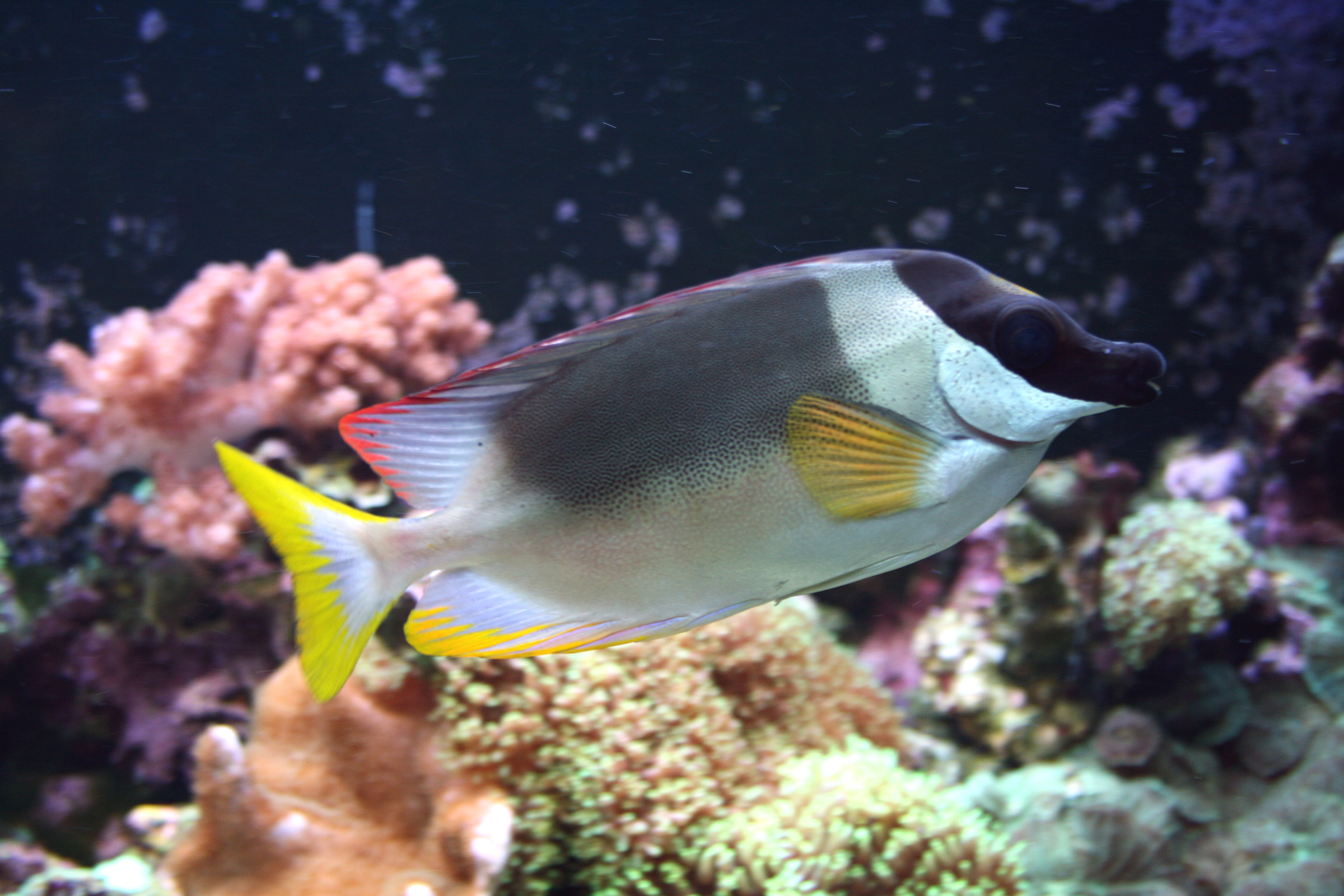 Fish Siganus magnificus Siganus magnificus in Prague sea aquarium, Czech Republic